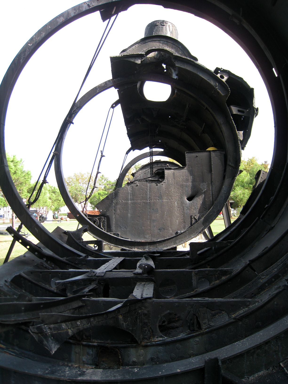 Wreckage of German submarine UB-46, sunk by a mine off Istanbul on 7 December 1916 and salvaged in 1993. Now on display at the Dardanelles Naval Museum at Çanakkale, Turkey.